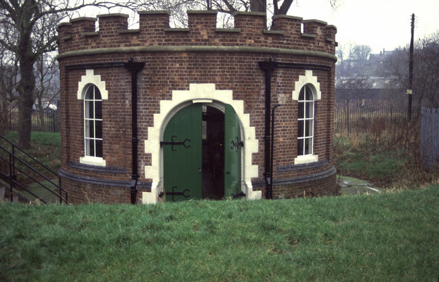 Dock Road Edwardian Pumping Station, Northwich, Cheshire. Now open regularly as a visitor attraction and home to a pair of horizontal single cylinder gas engines driving reciprocating pumps. I think they were originally hot-tube but later converted to spark ignition. It was a bitterly cold morning and the engine that was runnable resisted vigorous attempts to coax it into life.